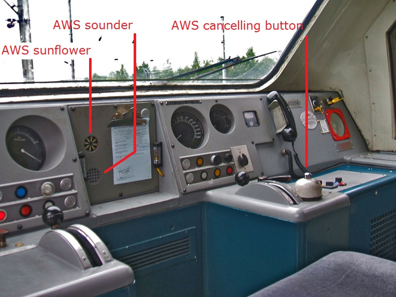 AWS cancelling button and 'sunflower' in a Class 43 cab